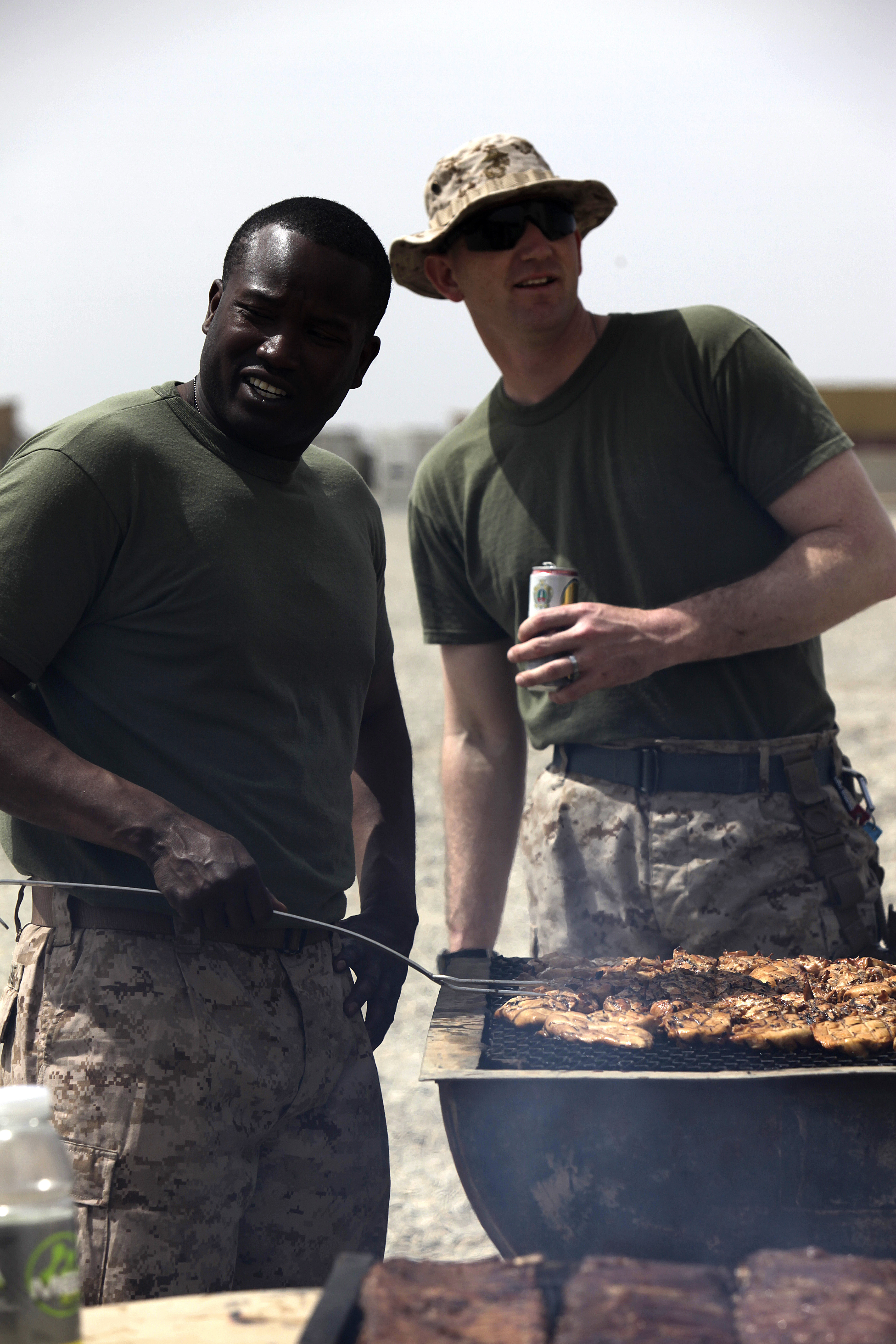 U.S. Marine Corps staff noncommissioned officers with Combat Logistics Company 28, Combat Logistics Regiment 2 prepare meat for their company barbecue at Camp Dwyer in Helmand province, Afghanistan, April 3, 2013.